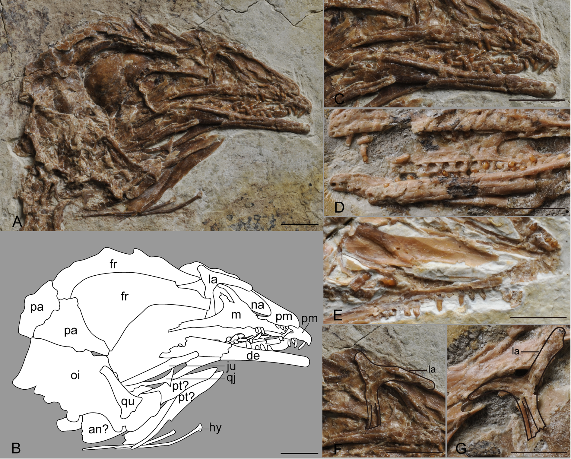 Photograph (A) and camera lucida drawing (B) of the skull of IVPP V18687, and comparison of teeth morphological details of C, IVPP V18687;D, Pengornis houi; and E, Eopengornis martini, and lacrimals of F, IVPP V18687; and G, Pengornis houi. Abbreviations: an, angular; de, dentary; fr, frontal; hy, hyoid; ju, jugal; la, lacrimal; m, maxilla; na, nasal; oi, occipital region; pa, parietal; pm, premaxilla; pt, palatine; qj, quadratojugal; qu, quadrate. Scale bar equals 5 mm.